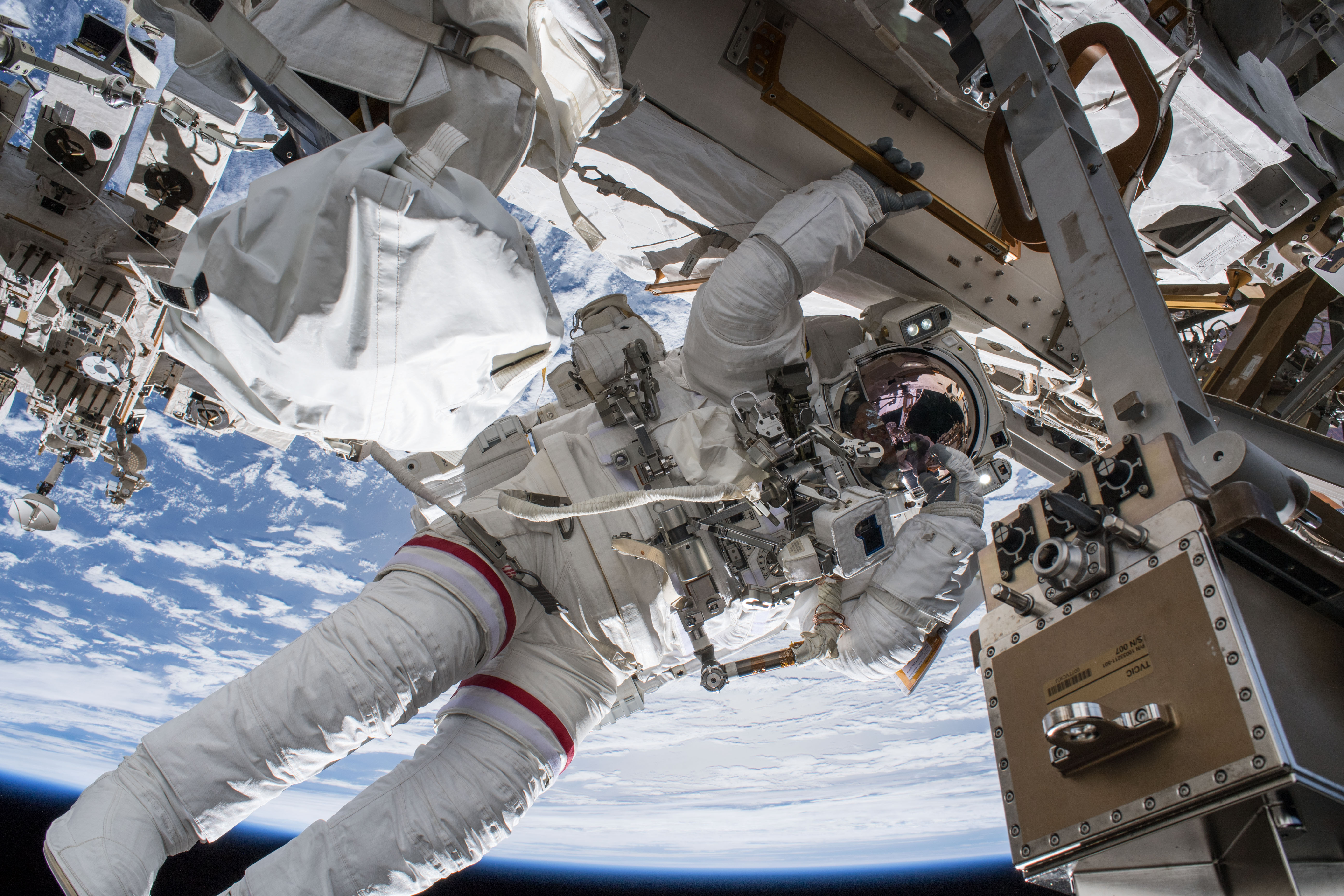 NASA astronaut Drew Feustel seemingly hangs off the International Space Station while conducting a spacewalk with fellow NASA astronaut Ricky Arnold (out of frame) on March 29, 2018. Feustel, as are all spacewalkers, was safely tethered at all times to the space station during the six-hour, ten-minute spacewalk.